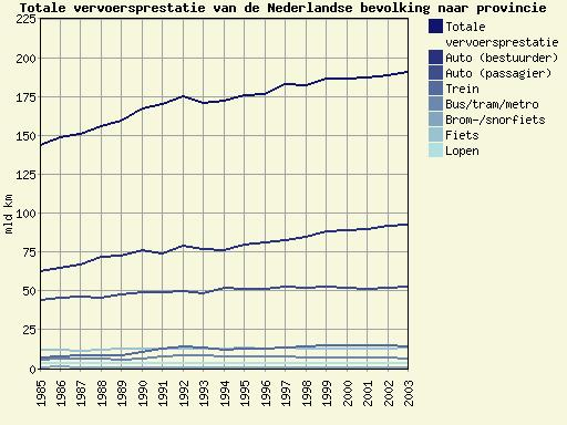 Distance travelled by various means of transport by the population of the Netherlands.